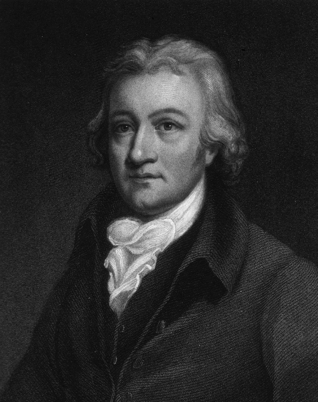 Edmund Cartwright (1789 – 1864)